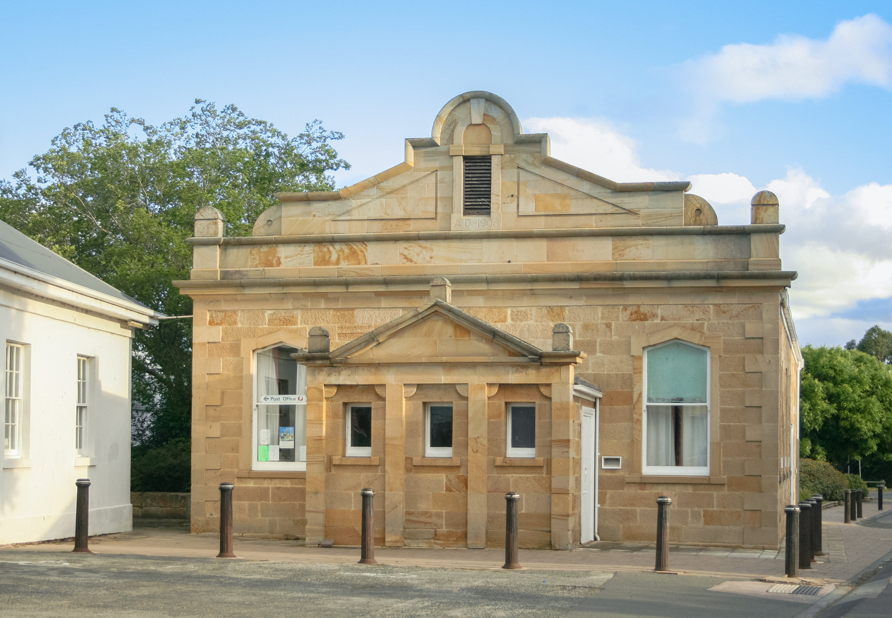 Richmond, Tasmania, Australia